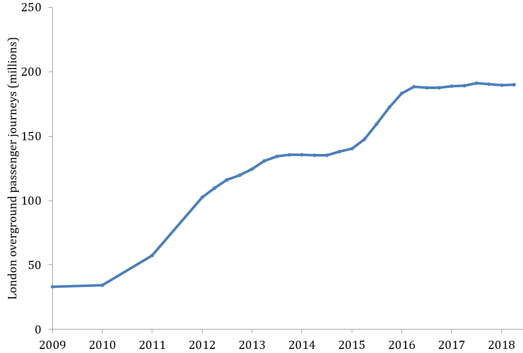 London Overground passenger numbers (millions) 2007-2015[1][2]